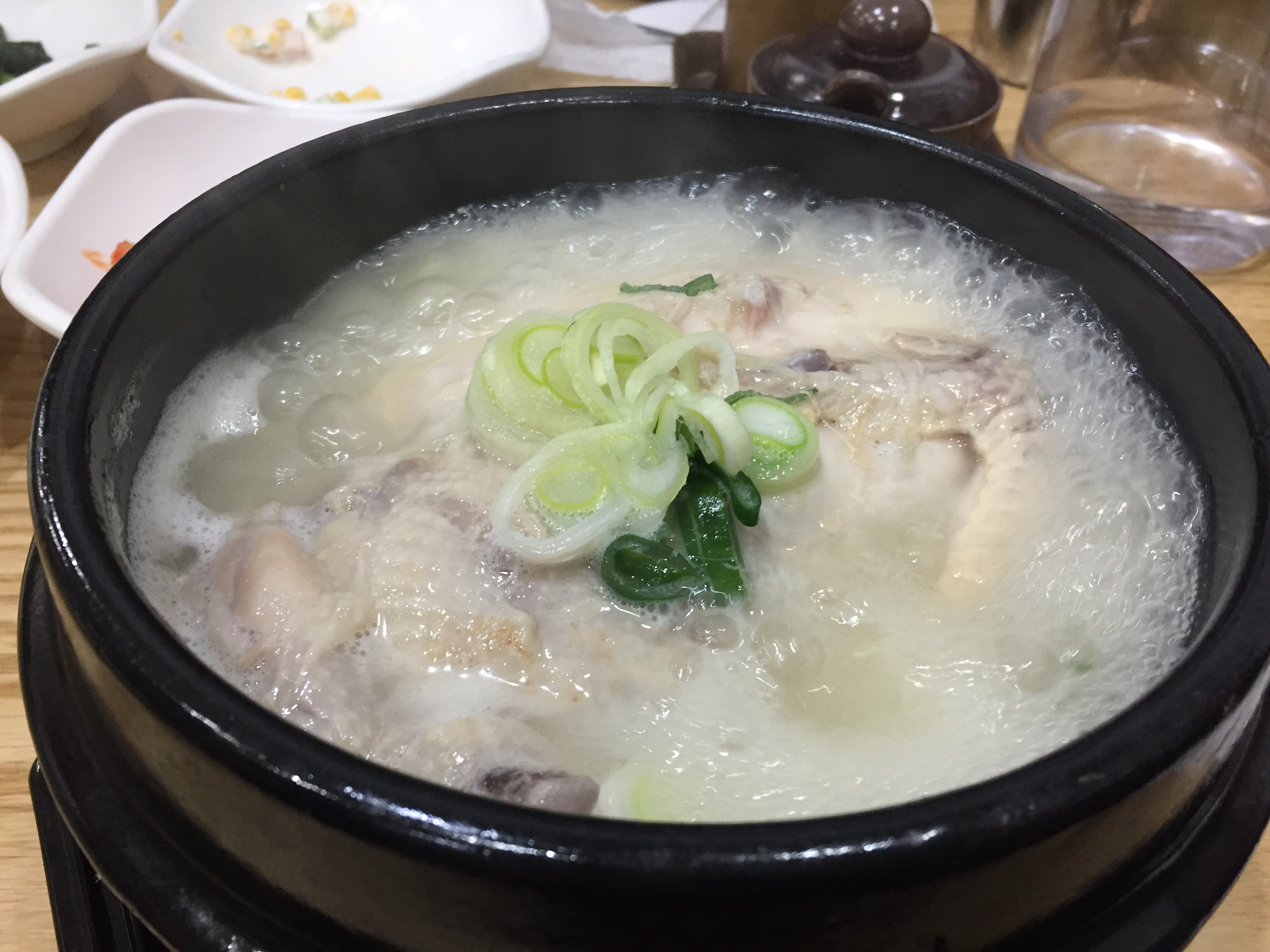 Samgyetang (삼계탕), one of the popular Korean Cuisine